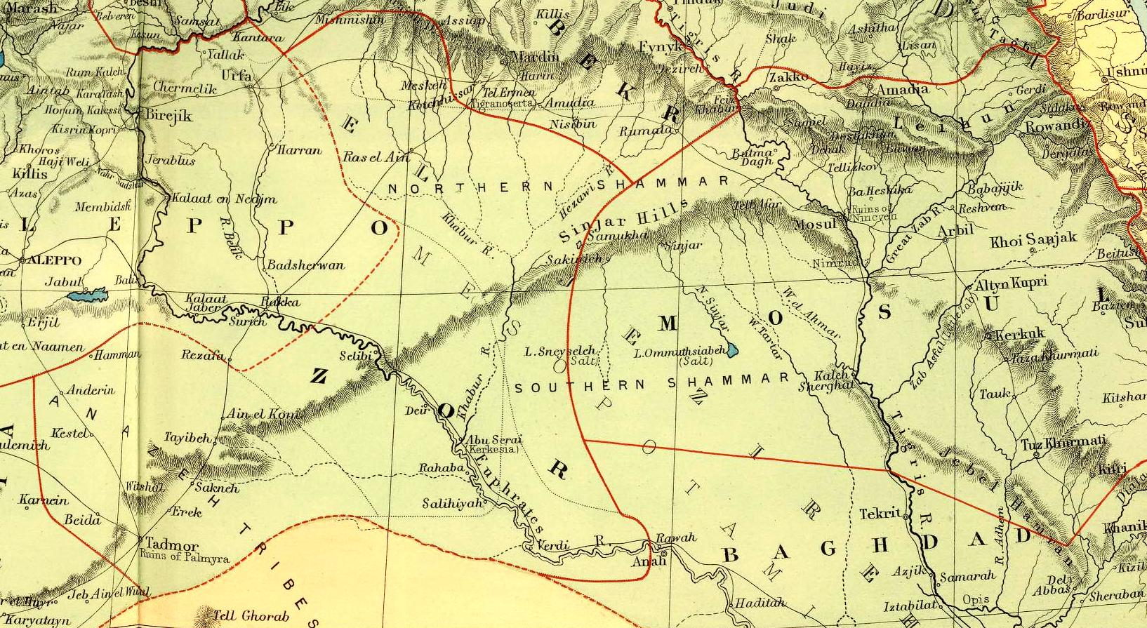 Asia Minor, the Caucasus & the Black Sea. London atlas series. Stanford's Geogl. Estabt. London : Edward Stanford, 26 & 27, Cockspur St., Charing Cross, S.W. (1901)